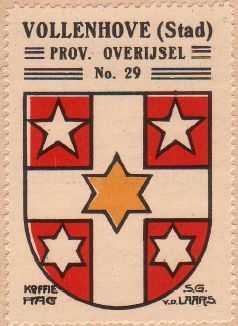 Coat of arms of Stad Vollenhove (Netherlands)